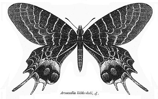 Bhutan Glory, male